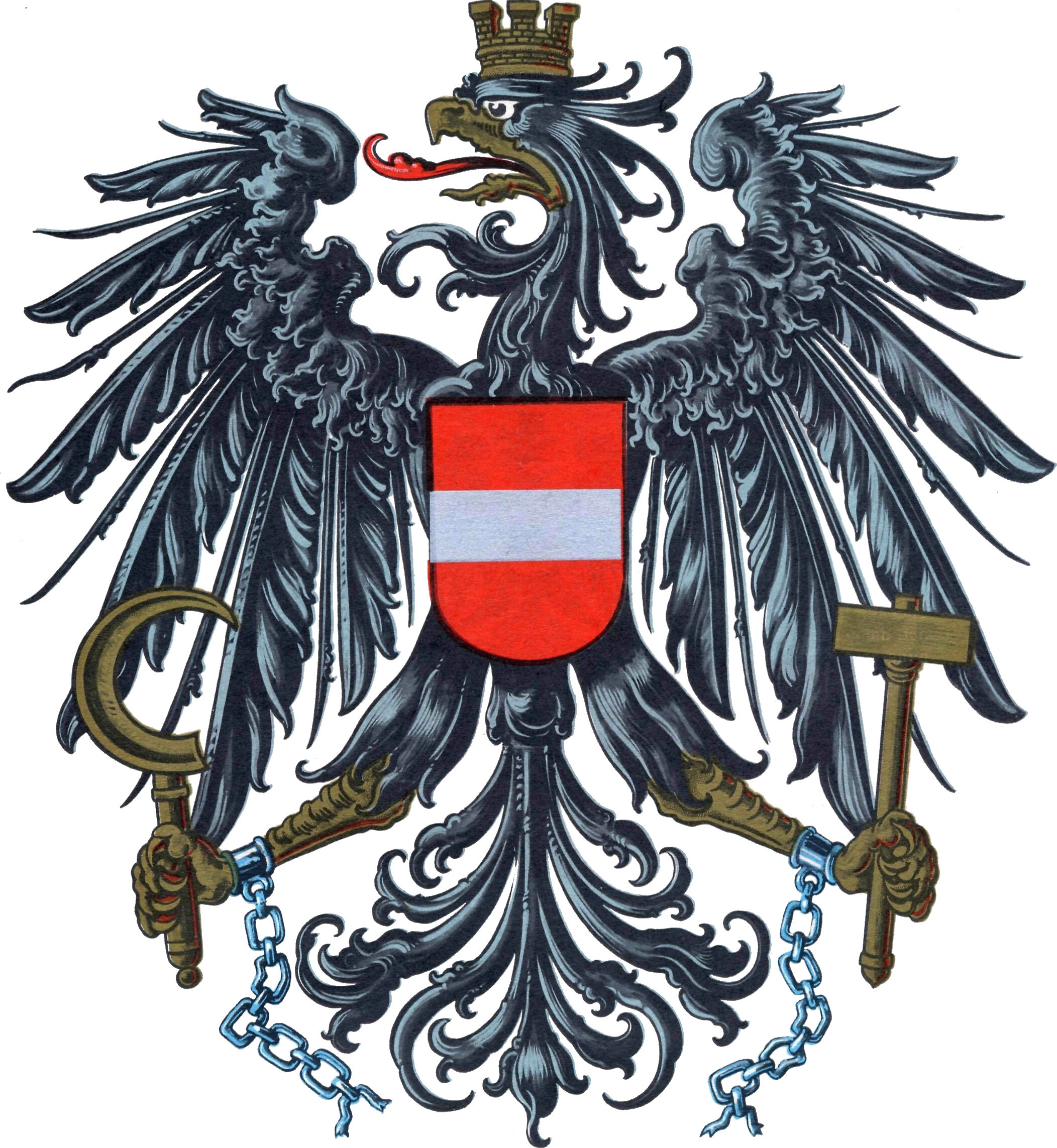 Coat of arms of Austria: Coat of arms of Austria, depicting the black eagle.